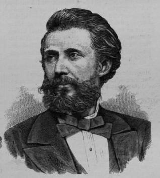 Portrait of Sándor Matlekovits